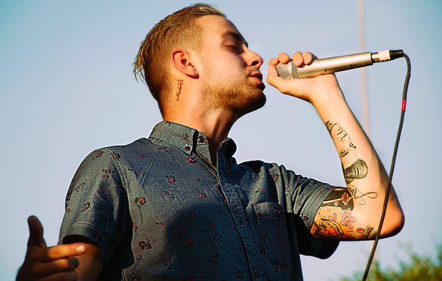 Tyler Carter of Issues performing live.